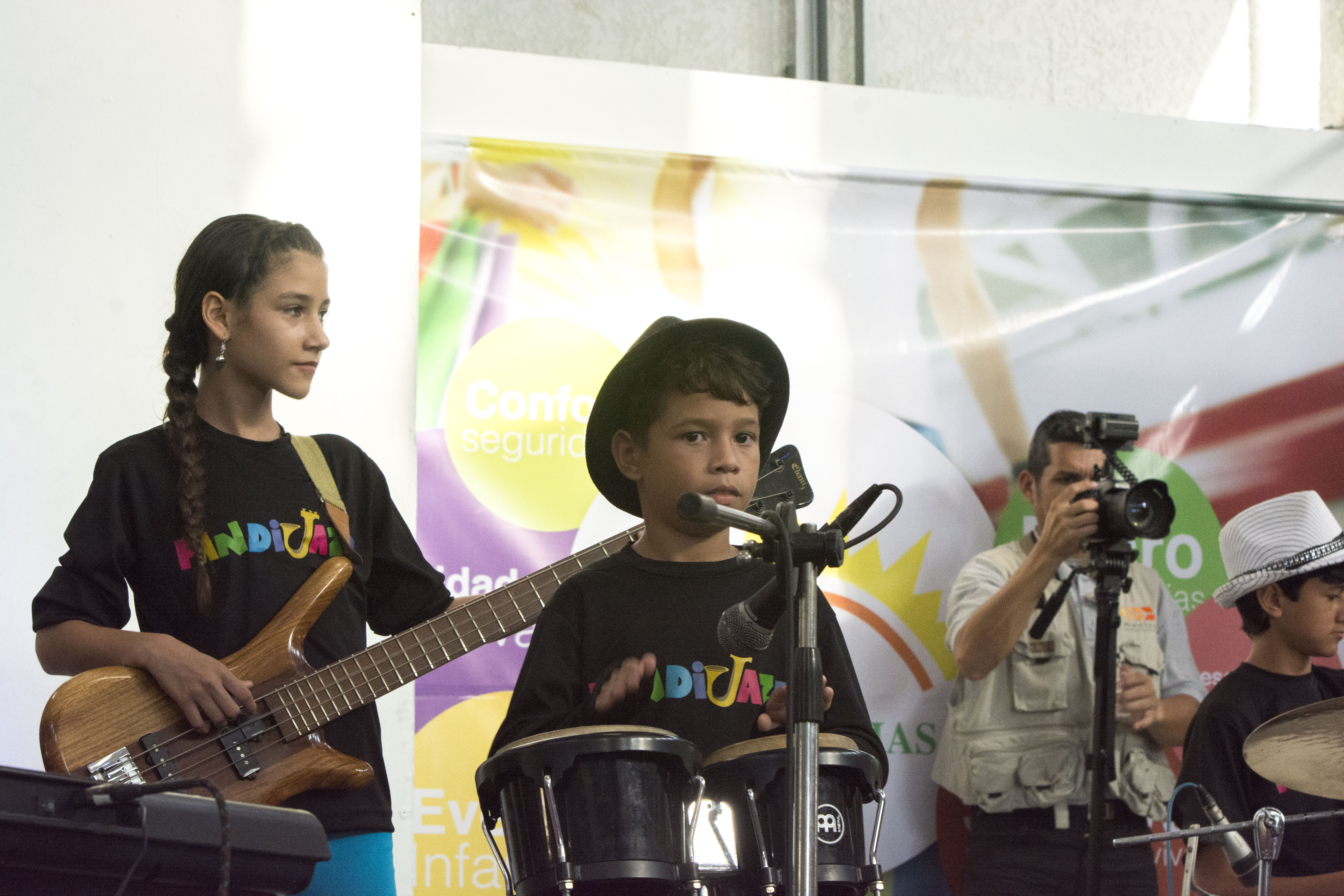 Photo: Saulo Ortiz